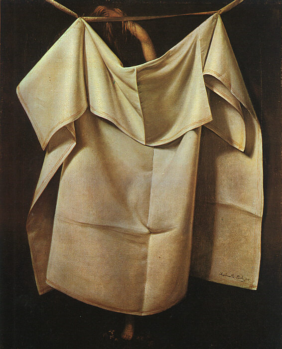 A painting which famously comments on the fact that depictions of nude women, however artistic, were barely acceptable for public display in the United States of the early 19th century. Her "towel" greatly resembles a pocket-handkerchief...